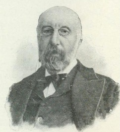 Portrait of the Italian senator Romualdo Bonfadini. In "Nuovi ritratti letterari e artistici" di Edmondo De Amicis (1908)